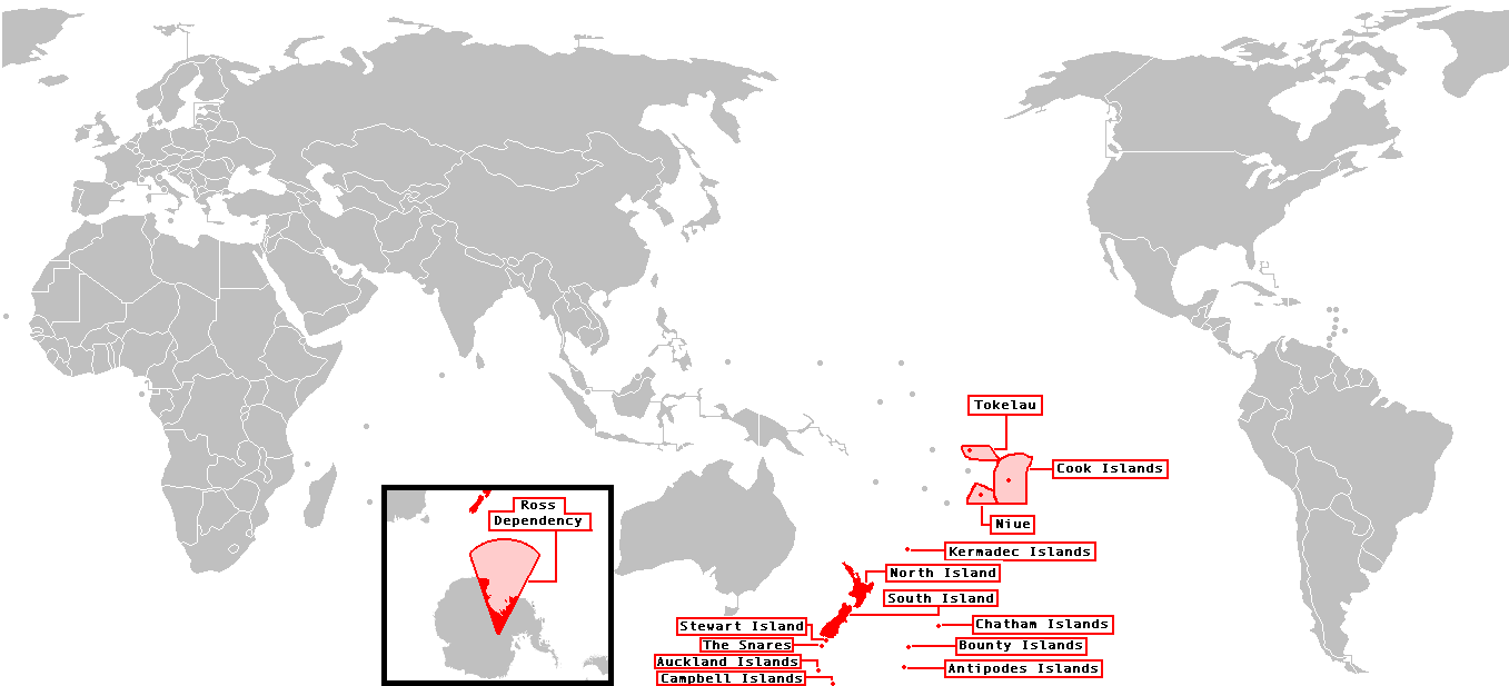 Realm of New Zealand. For detailed view, see Image:Realm of New Zealand.png.